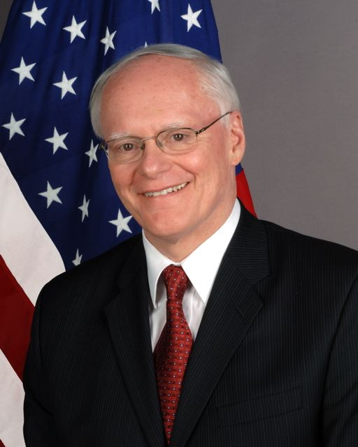 James F. Jeffrey. As of 2008, the United States Ambassador to Turkey.